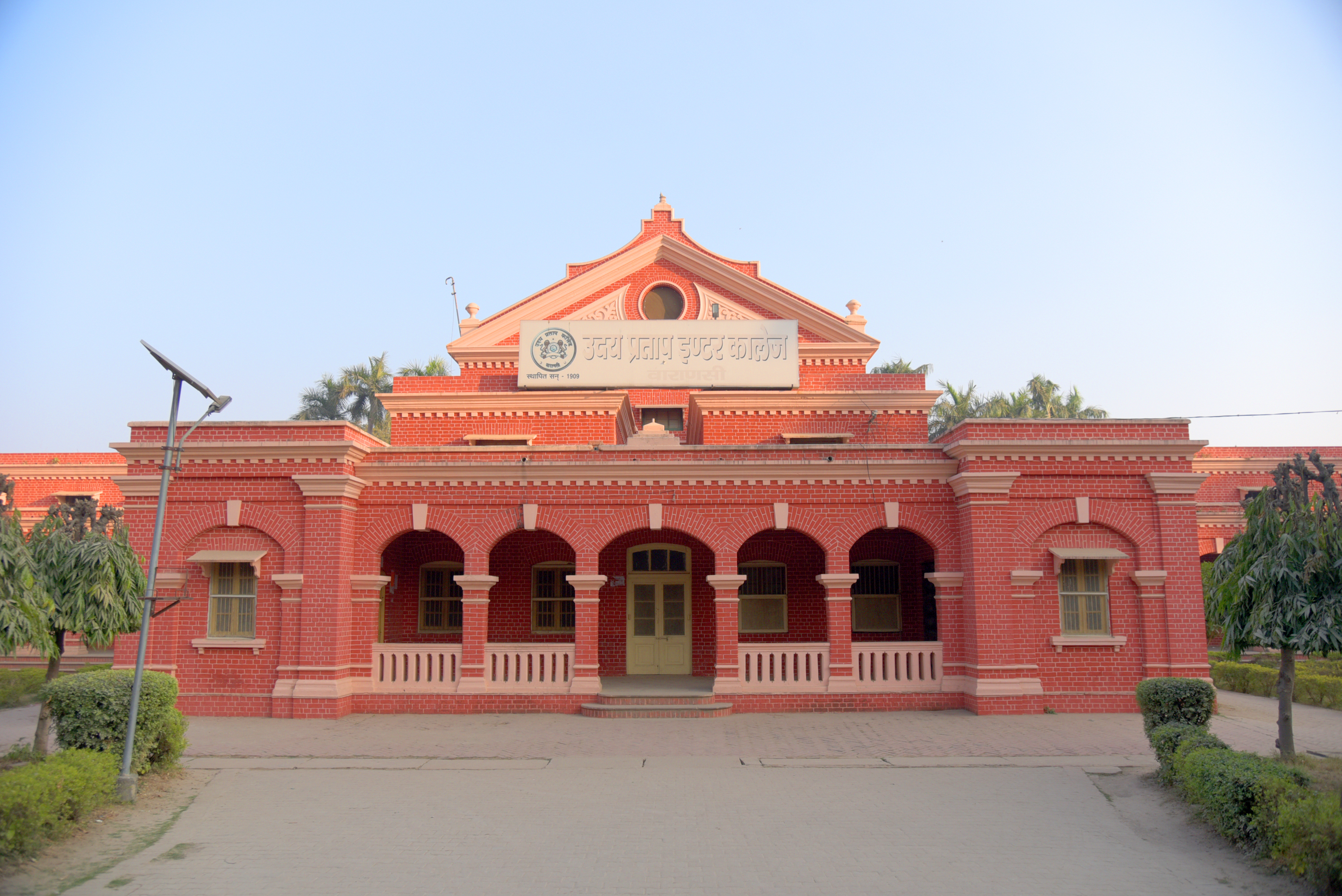 UP College Established in 1909, the autonomous institution is situated in North Western Varanasi. Conceptualized by Late King Rajshi Udai Pratap Singh, the campus is spread over 100 acres, in a green environment.